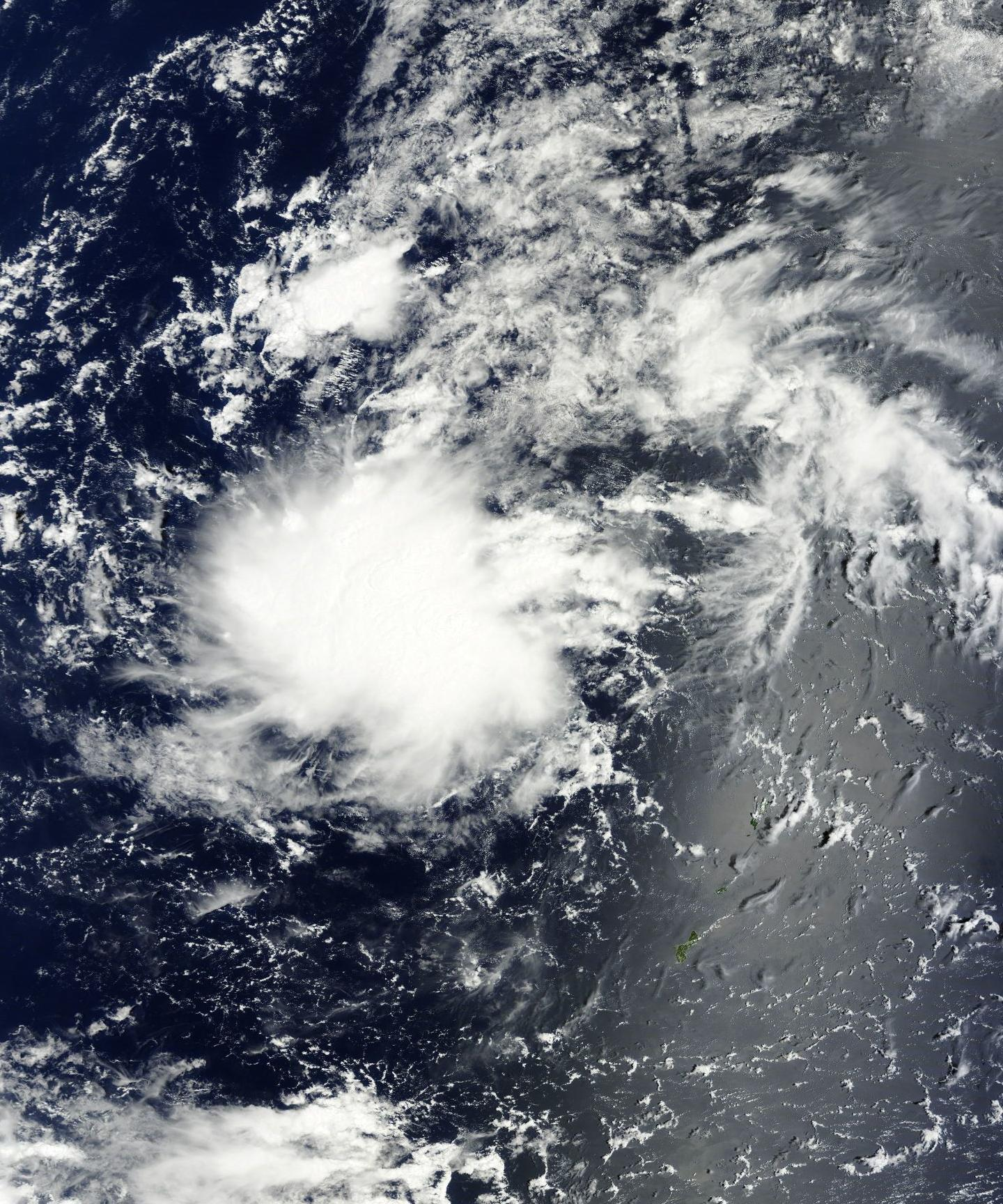 Invest 92W just before upgrading into JMA Tropical Depression 25 on September 5, 2015